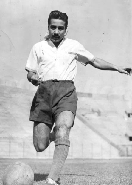 Argentine football player, Norberto Tucho Méndez, playing for Huracán.